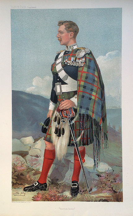 Men of the Day No.0956: Caricature of The Marquess of Tullibardine. Caption reads: "Scottish horse"